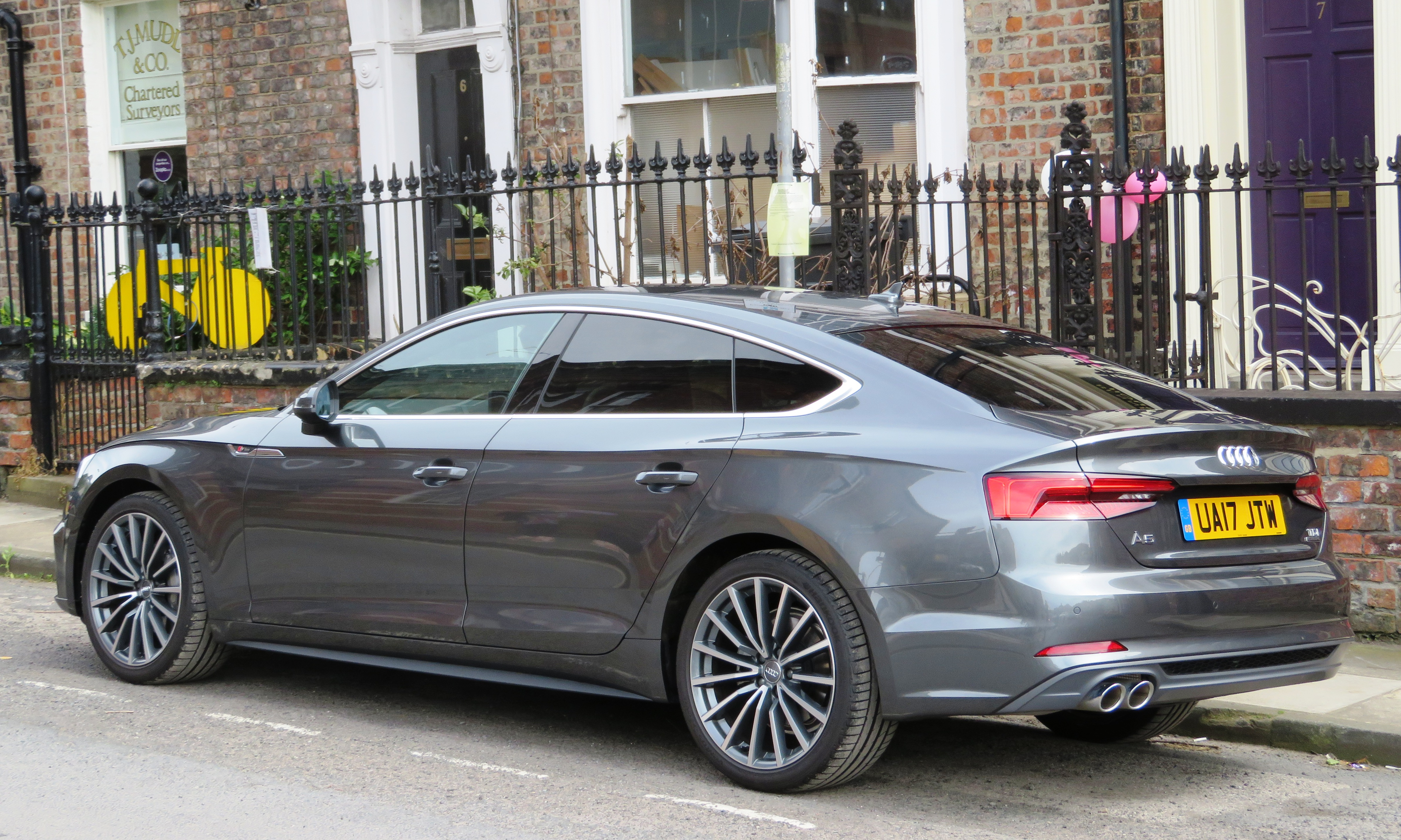 Audi A5 3.0 TDI Quattro Sportback (2017) in York License plate has been changed for anonymisation purposes: year code remains correct, however